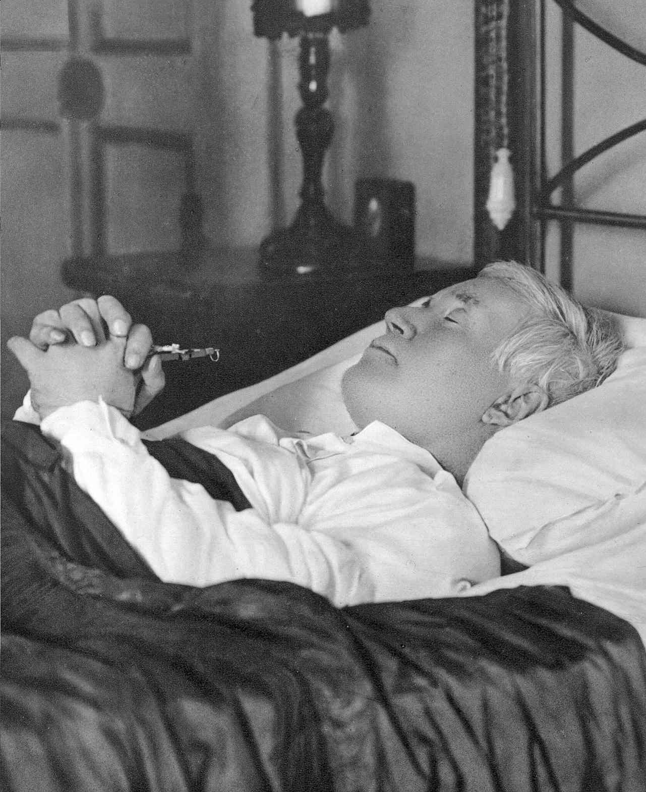 Photo of Pope Pius X at his deathbed August 20, 1914